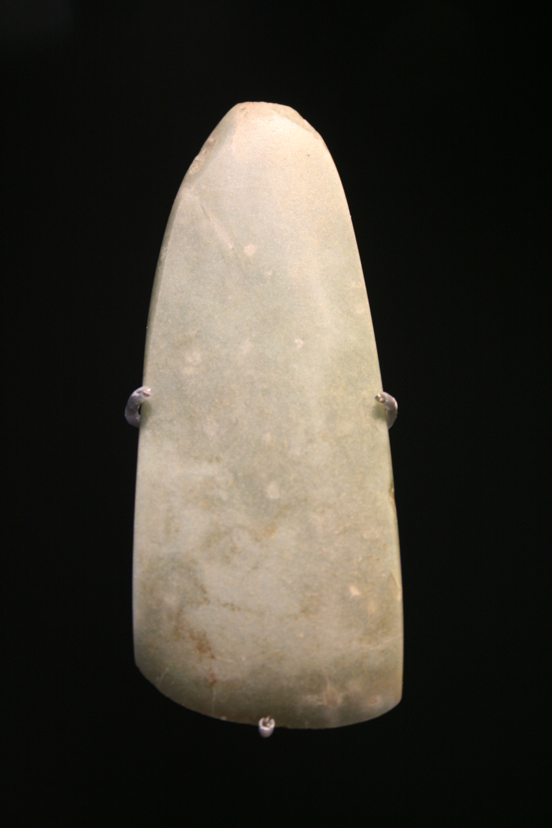 Jadeite axe from a tomb at Unterjettingen; State museum Württemberg, Stuttgart